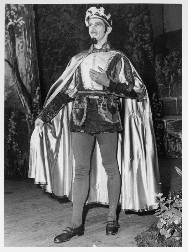 Richard Verreau in Faust by Gounod Cameron Nish. Cameron Nish fonds. Library and Archives Canada, e003895216 / Cameron Nish. Fonds Cameron Nish. Bibliothèque et Archives Canada, e003895216